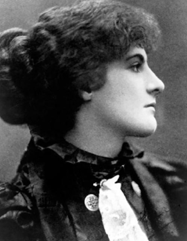 Olivia Shakespear Тоҷикӣ: Расми Оливия Шекспир барои Википедияи тоҷикӣ